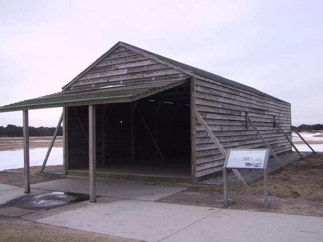 Replica of hangar used by Wright Brothers for their first powered flight. Wright Brothers National Memorial, Kill Devil Hills, North Carolina, USA.